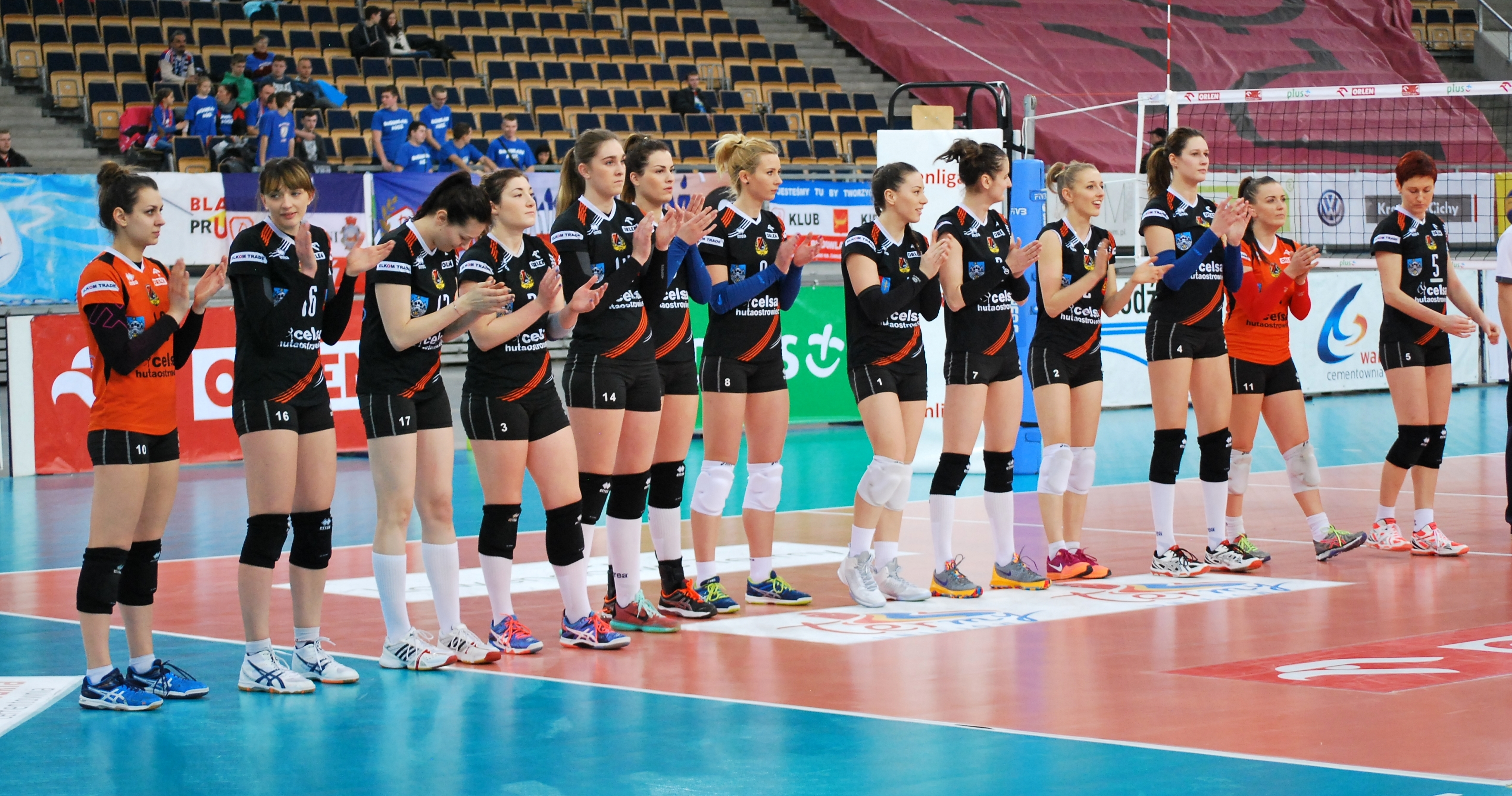 Alicja Wójcik, volleyball player from Poland